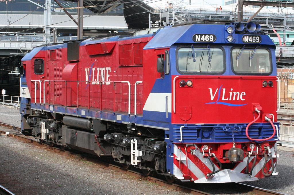 V/Line N class locomotive N469